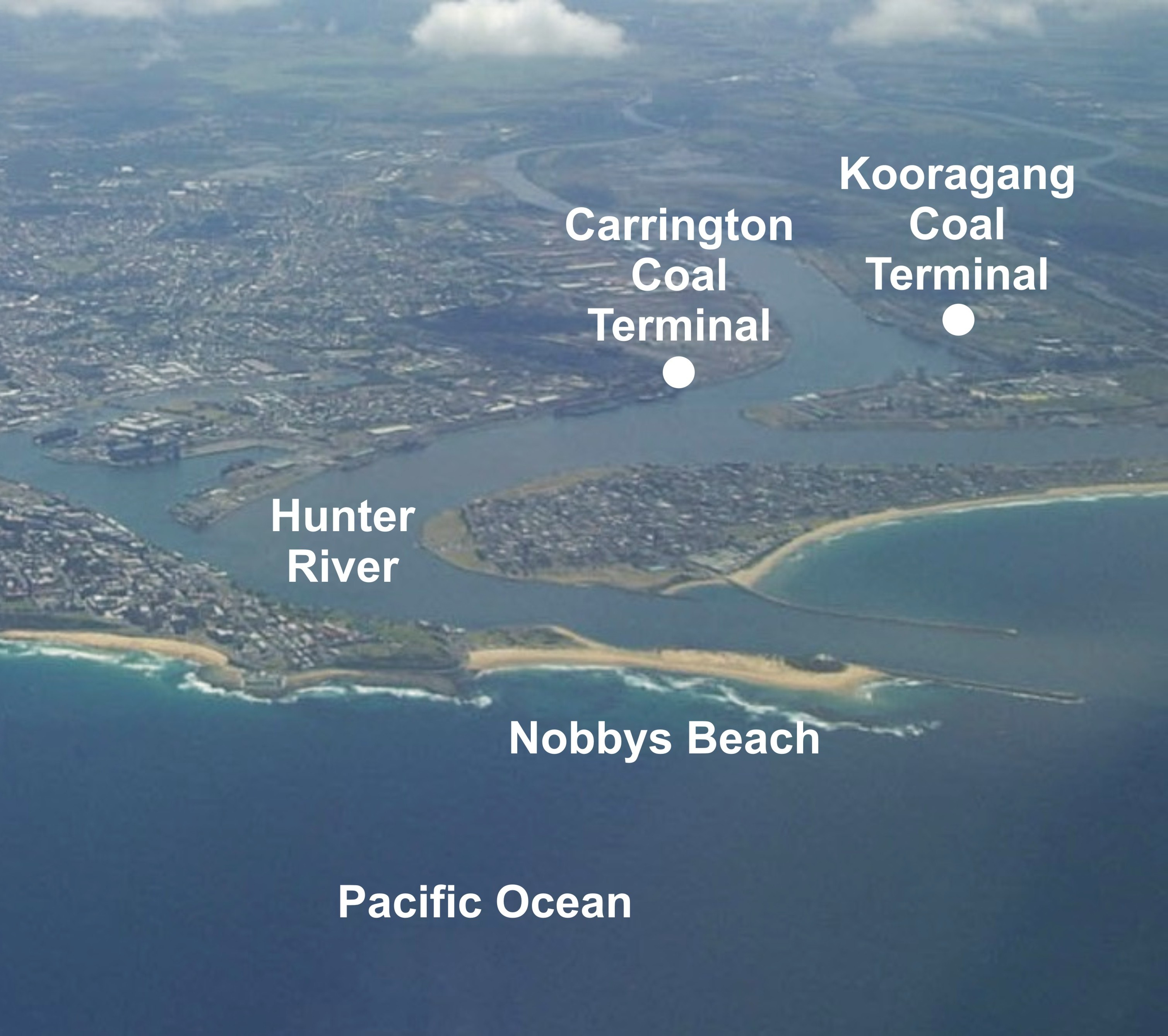 Aerial photograph taken on a flight from Newcastle to Melbourne. Taken by User:Tim Starling. Pentax Optio S30.Original version:Image:Newcastle, Australia aerial.jpg Photo cropped and annotated by Melburnian